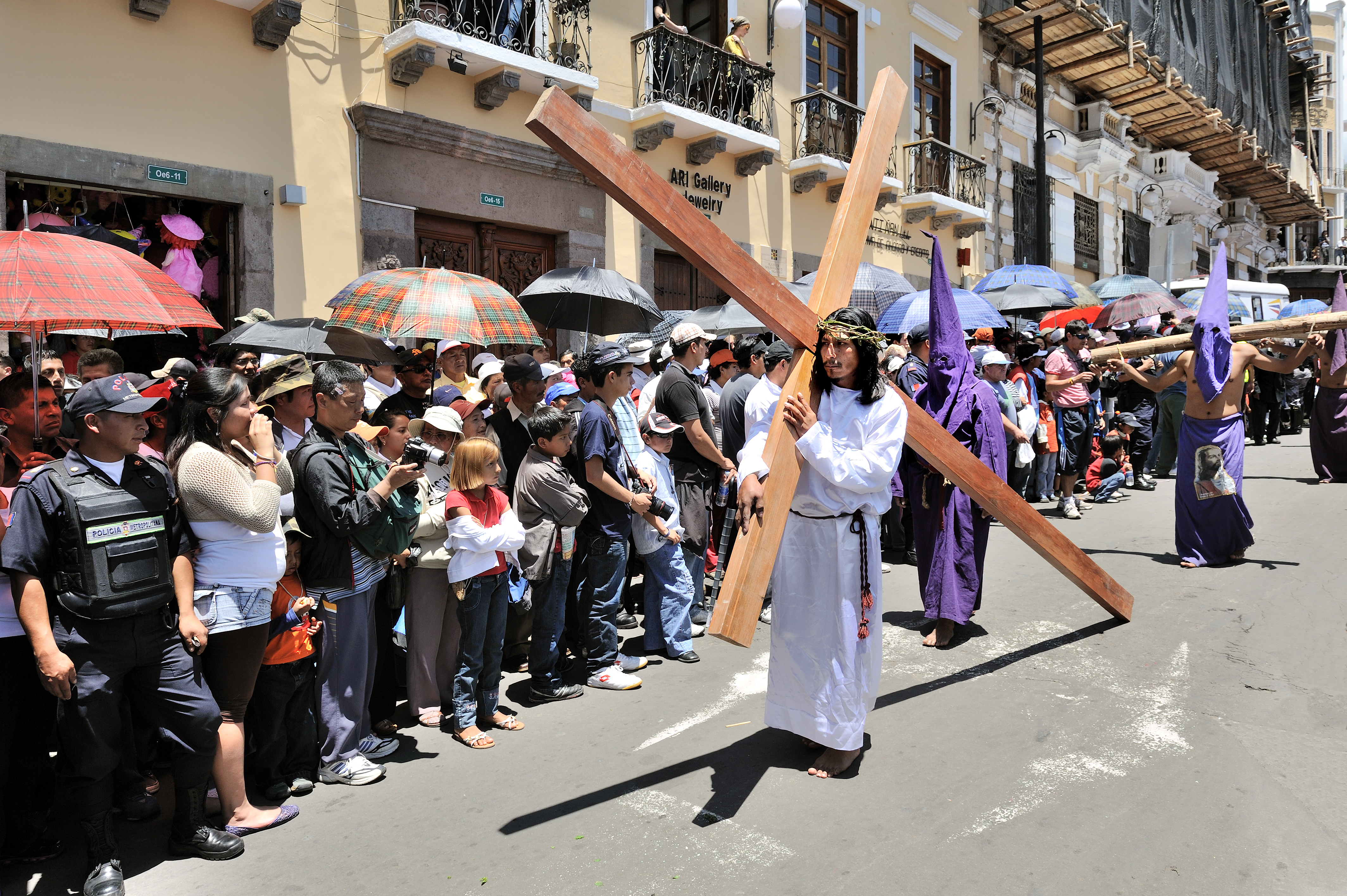 Quito, Ecuador, Good Friday 2010: Street procession entitled Procesión del Jesús del Gran Poder (Jesus with the Great Power).